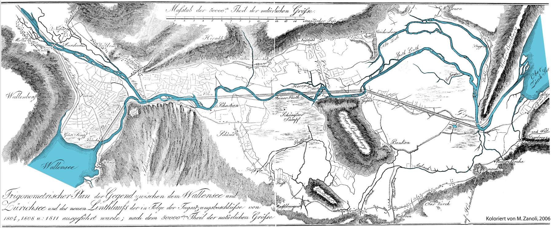 The plain of the river Linth between Weesen and Schmerikon before and after the correction of the river Linth, 1811. Mitarbeit von Johann Daniel Osterrieth (* 9. Oktober 1768 in Straßburg, Elsass; † 25. Juli 1839 in Bern) war ein Architekt des Klassizismus. Er war Berner Stadtbaumeister.